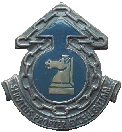 SADF 8 Division Mobilisation Unit